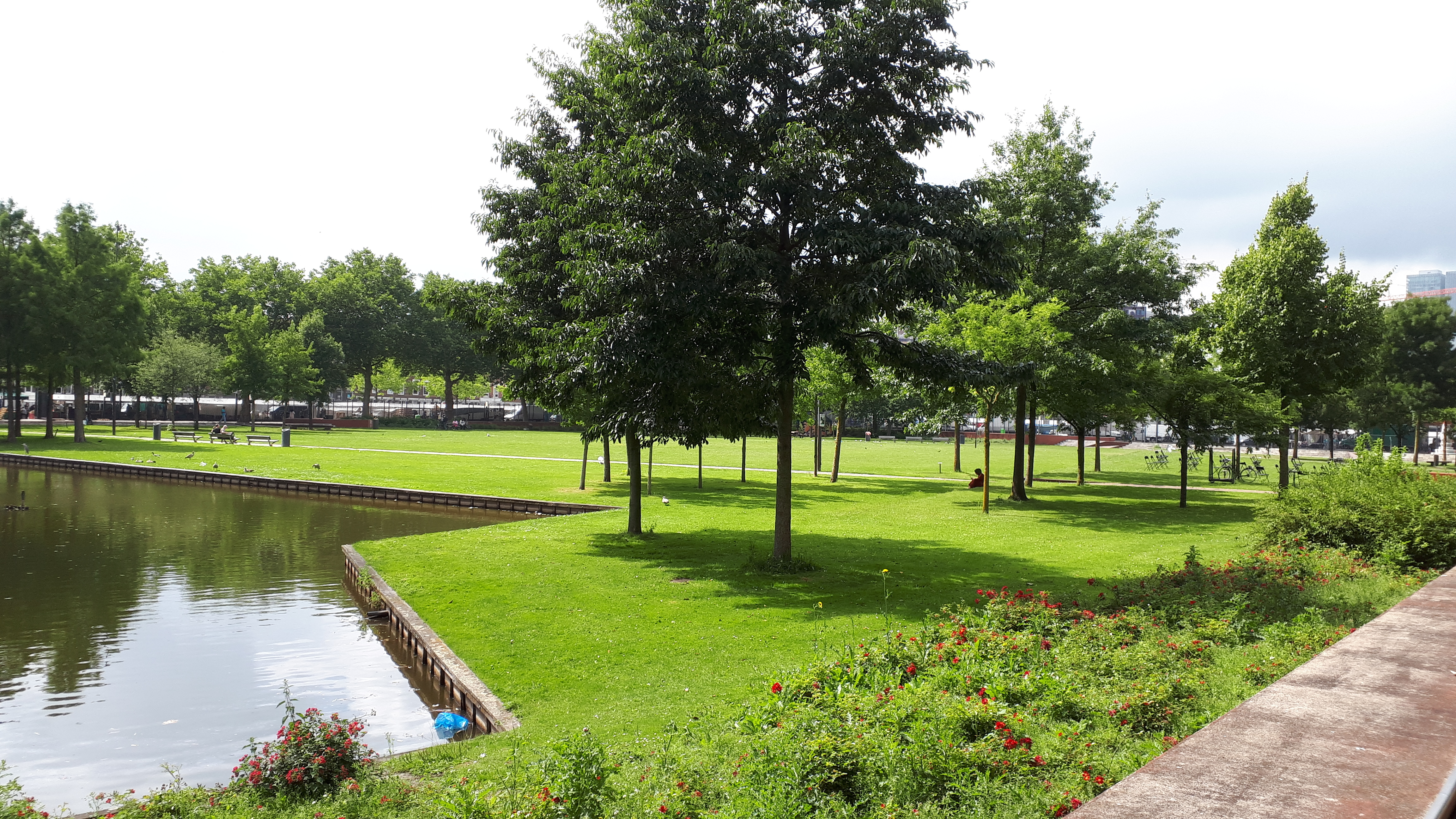 Afrikaanderplein Rotterdam